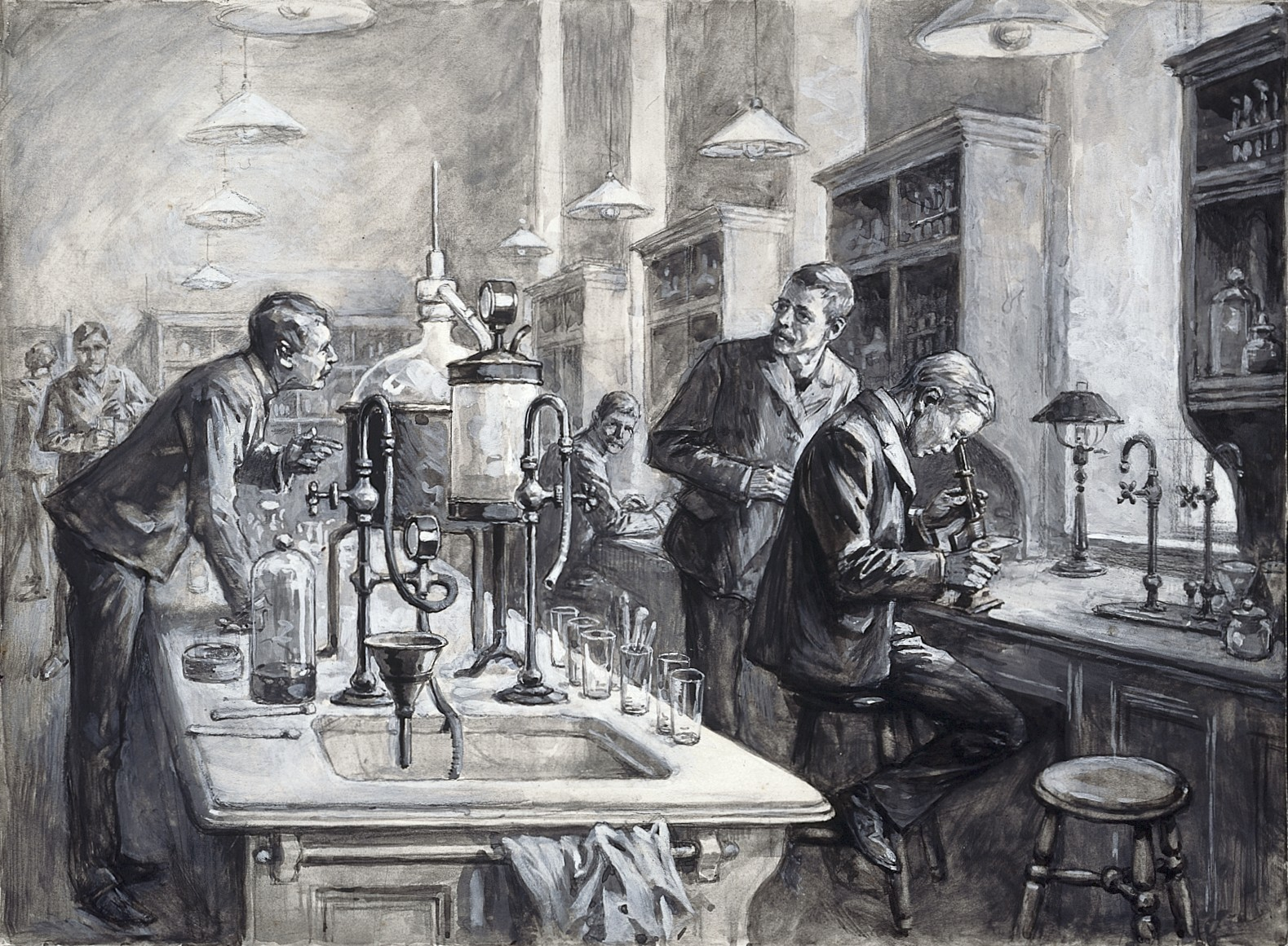 Sir Ronald Ross, C.S. Sherrington, and R.W. Boyce in a laboratory at the Liverpool School of Tropical Medicine. Gouache by W.T. Maud, 1899. Iconographic Collections Keywords: Sir Charles Scott Sherrington; Sir Rubert William Boyce; Sir Ronald Ross; Liverpool School of Tropical Medicine; W.T. Maud